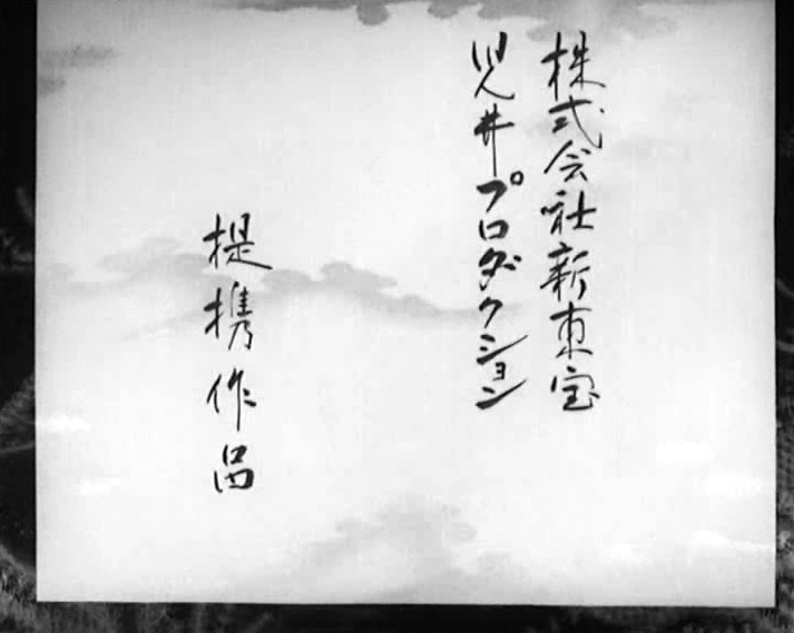 Screenshot from The Life of Oharu, 1952 film.